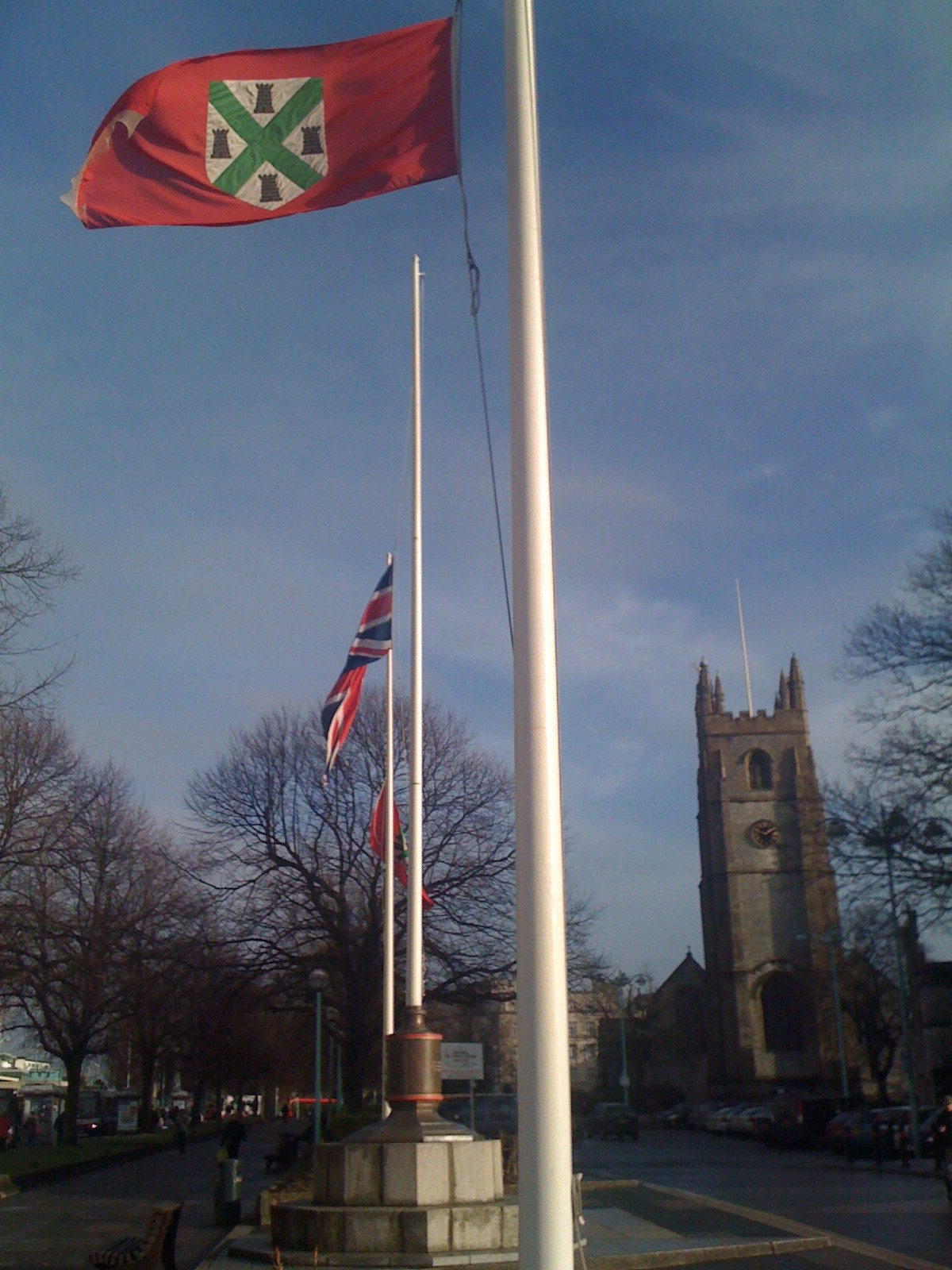 Flag of Plymouth flying outside Plymouth Guildhall and St Andrews Church